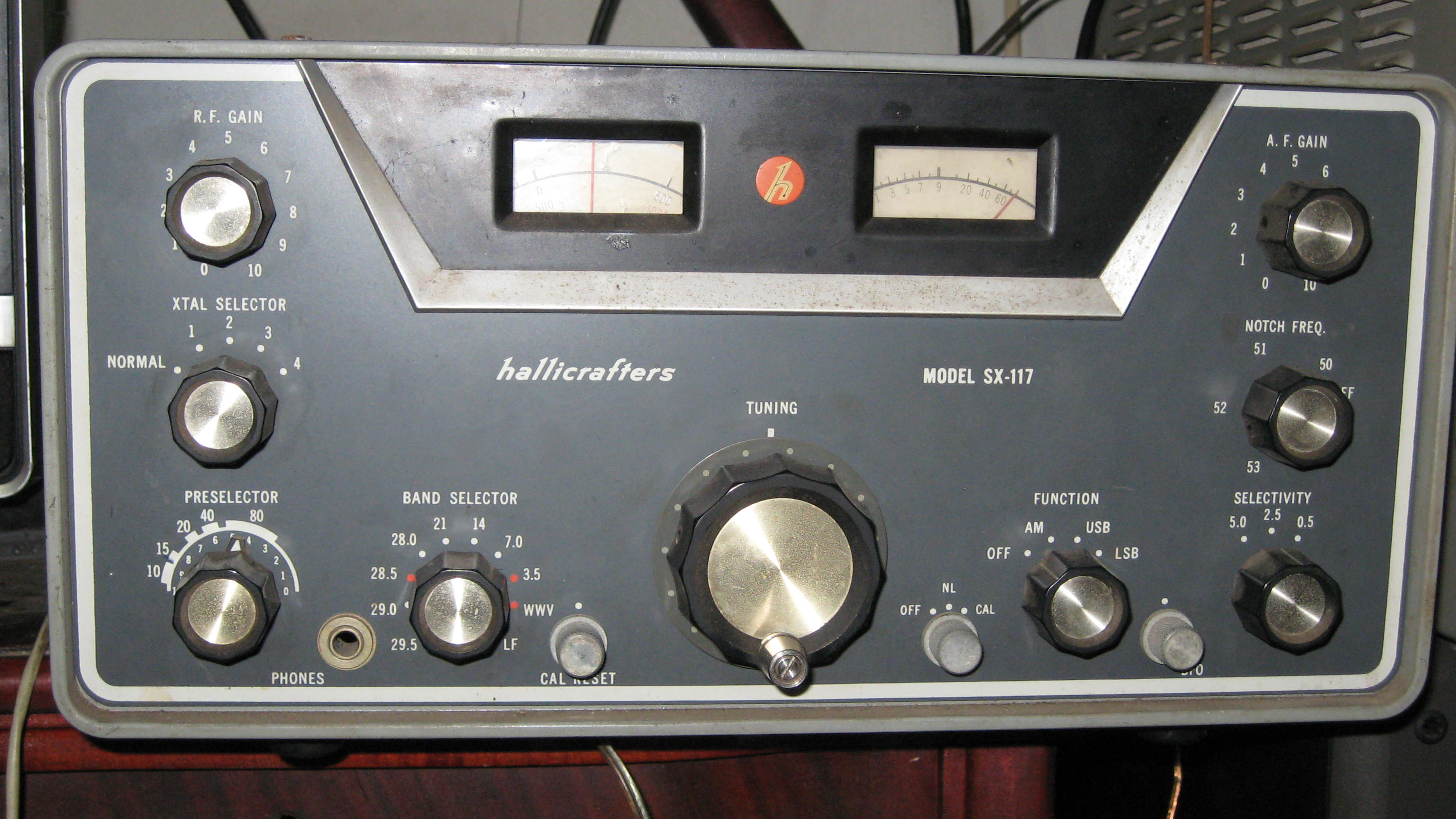 Hallicrafters SX-117 receiver, Elkhart, Indiana. Front view in the case.